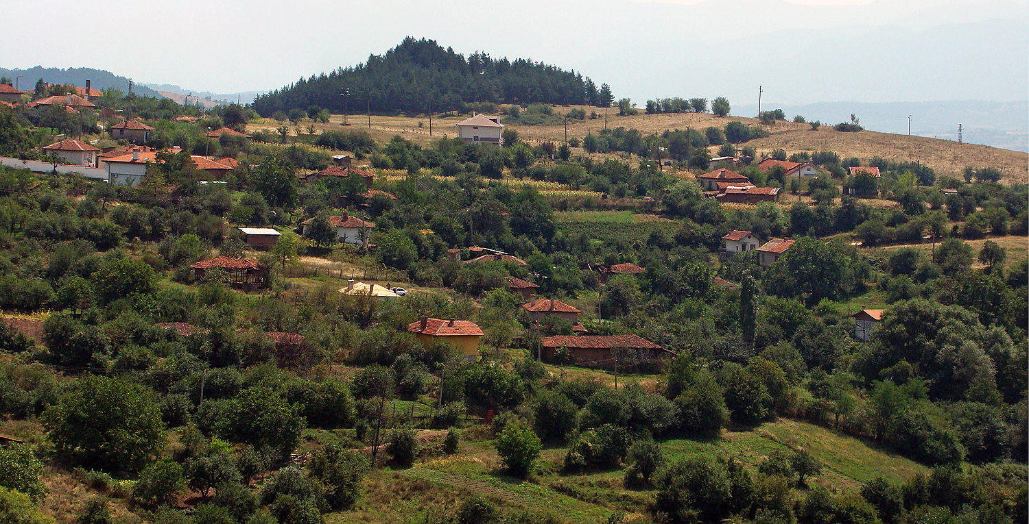 A Gorna Vasilitsa Hamlet